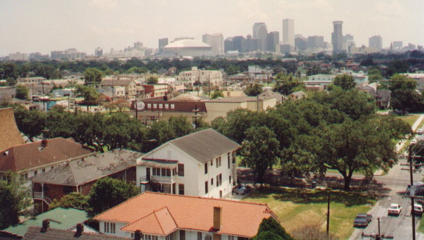 New Orleans: Skyline of New Orleans Central Business District as viewed from Uptown. Taken by Infrogmation of New Orleans from atop the Southern Baptist Hospital Parking Garage, near Napoleon and Claiborne avenues, August, 1991. Visible are the Superdome, a K&B drugstore. Related photo: Similar view from 2008: Image:CBDFromBaptistGarage3June2008A.jpg